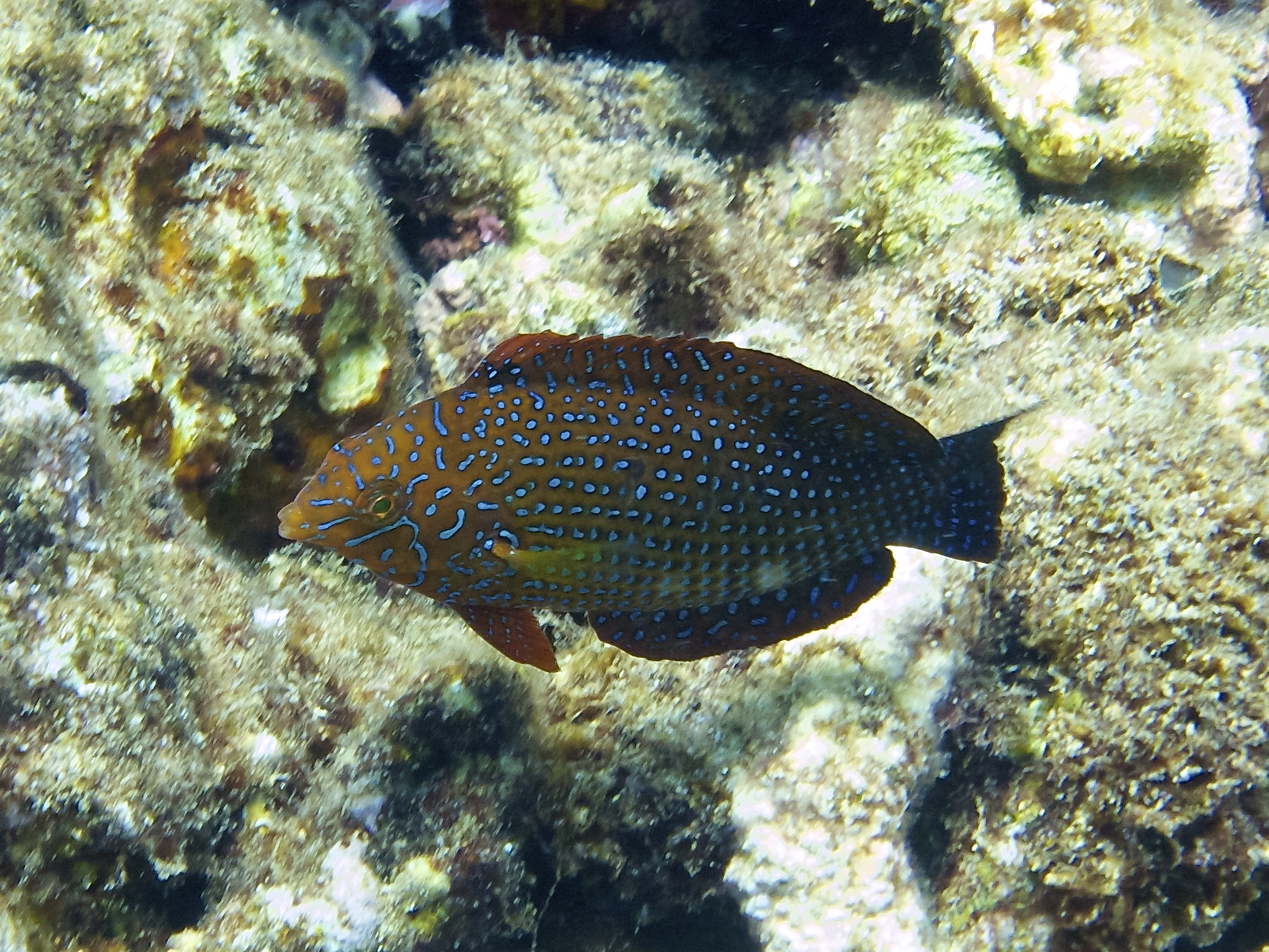 Off Old Airport Beach, Maui, HI. Depth 10ft